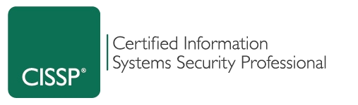 Logo of the independent information security certification Certified Information Systems Security Professional.